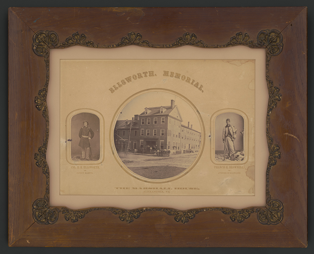 Title: Ellsworth. Memorial Col. E.E. Ellsworth, the patriot martyr. The Marshall house, Alexandria, Va. Francis E. Brownell, the avenger of Ellsworth. Abstract/medium: 3 photographs on 1 card mount : albumen prints on card mount in frame ; visible image 24 x 34 cm, frame 42 x 52 cm.